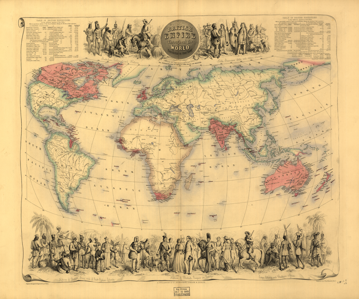 John Bartholomew and Co. was a mapmaking firm established in Edinburgh, Scotland, by John Bartholomew, Sr. (1805-61). His son, John Bartholomew, Jr. (1831-93), carried on the business. In the 1830s, the firm secured the commission to produce the maps in the Encyclopedia Britannica, which it held for the next 90 years. The business grew in the late 19th century as the British Empire expanded abroad and educational opportunity increased at home, driving up demand for maps. Among the cartographic innovations attributed to the firm were the use of red to indicate British possessions around the world and the technique of contour-layer coloring to represent topographical features through gradations in color. In this map, which probably dates from the 1850s before contour coloring was used, a note at the top states: “The British Possessions are engraved in a bolder character and coloured Red.” The use of red or pink for this purpose became common practice in the Victorian age. The map is also framed by idealized images of friendly encounters between British colonists and indigenous inhabitants in four different parts of the globe: Australia, North America, British Asia and the East Indian Islands, and the Cape Colony and Southern Africa. Territories and possessions